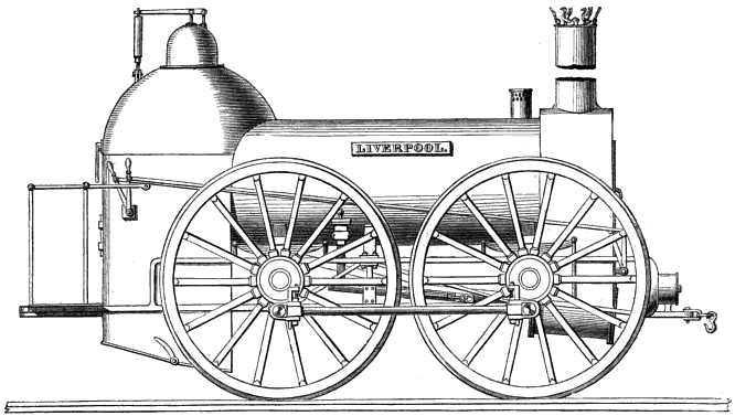 A line drawing of Edward Bury locomotive 'Liverpool'